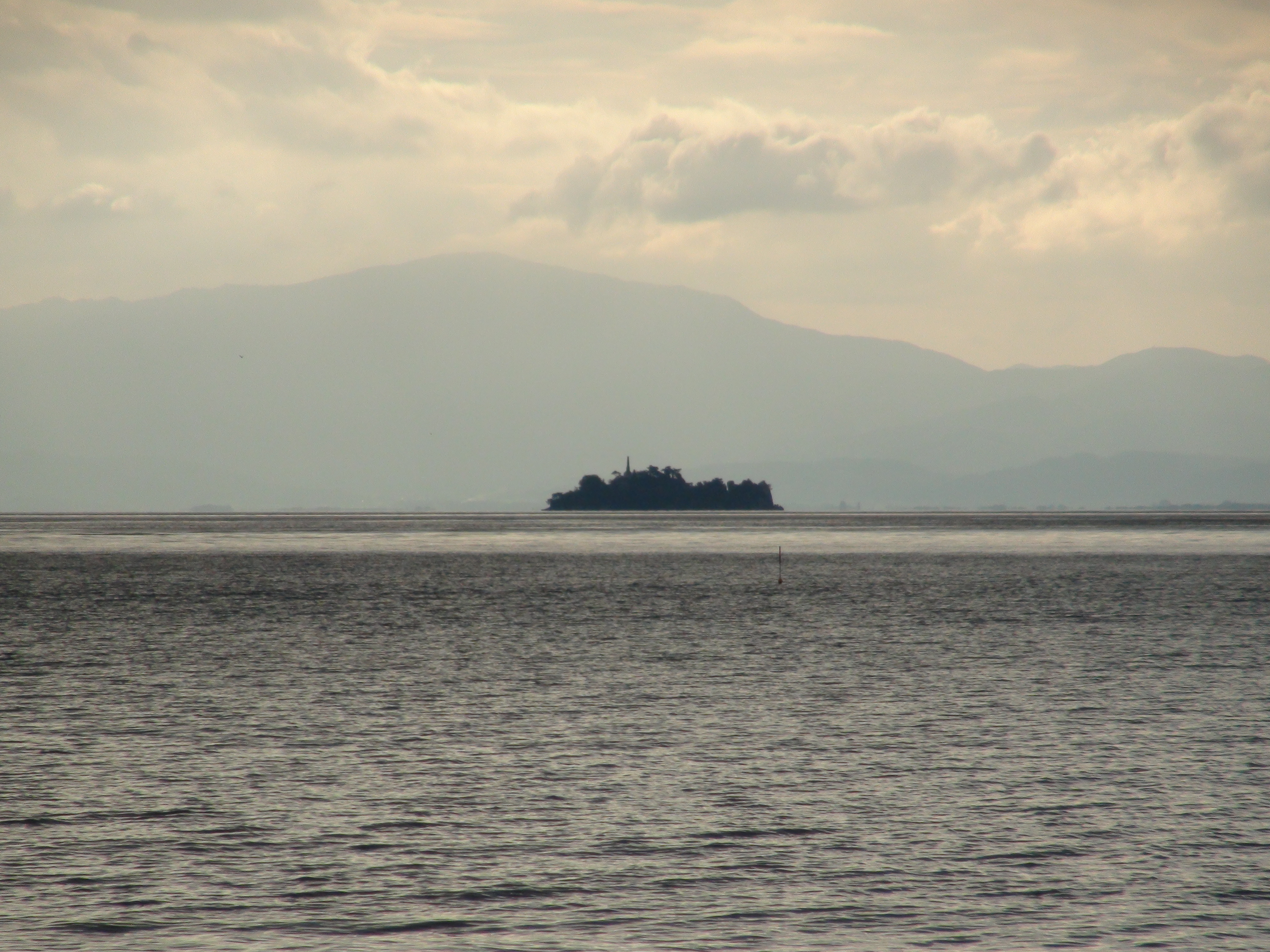 Takei island view from the Matsubara swimming beach Hikone